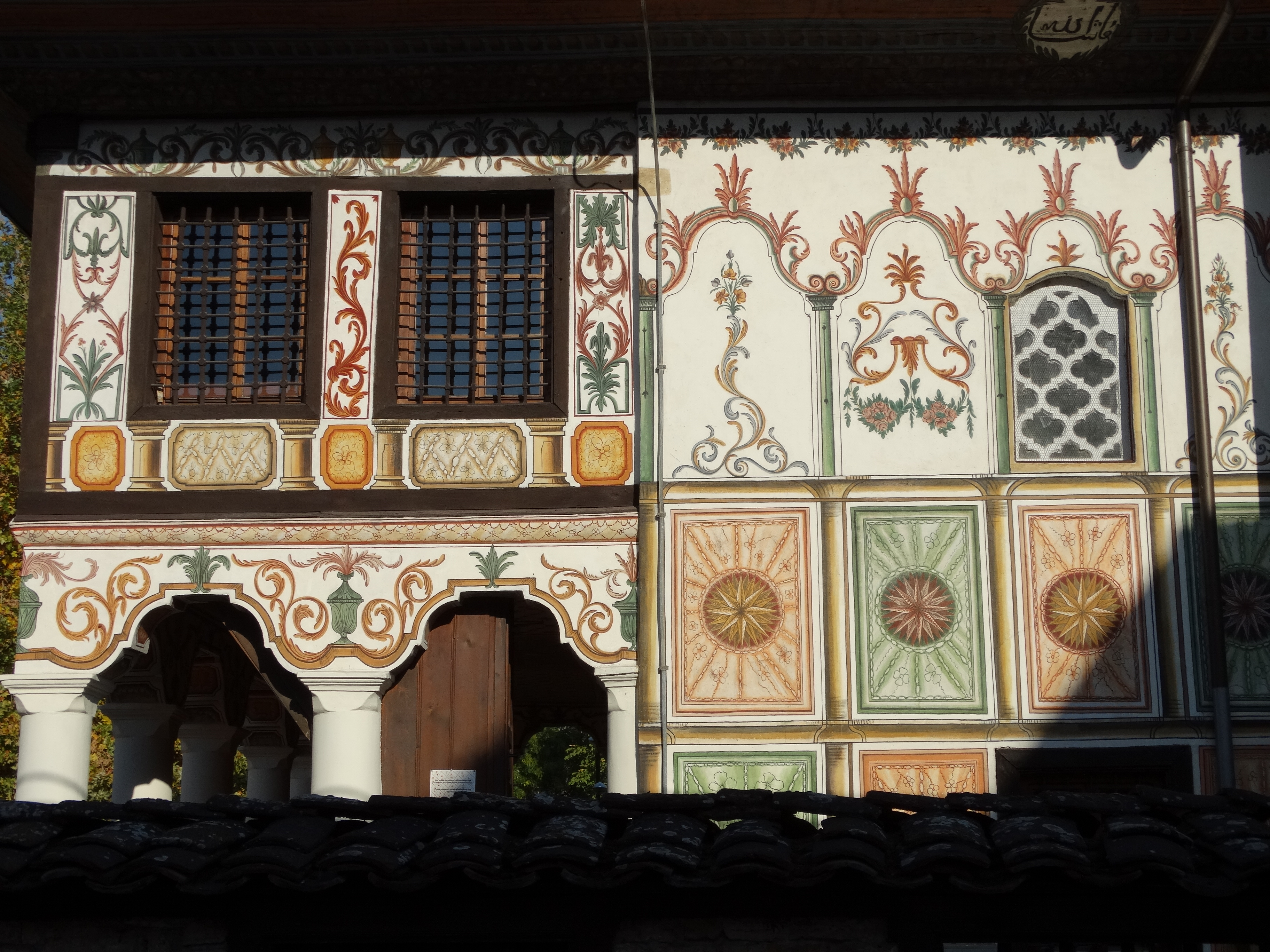 Facade of Pasha's Mosque - Tetova (Tetovo) - Macedonia